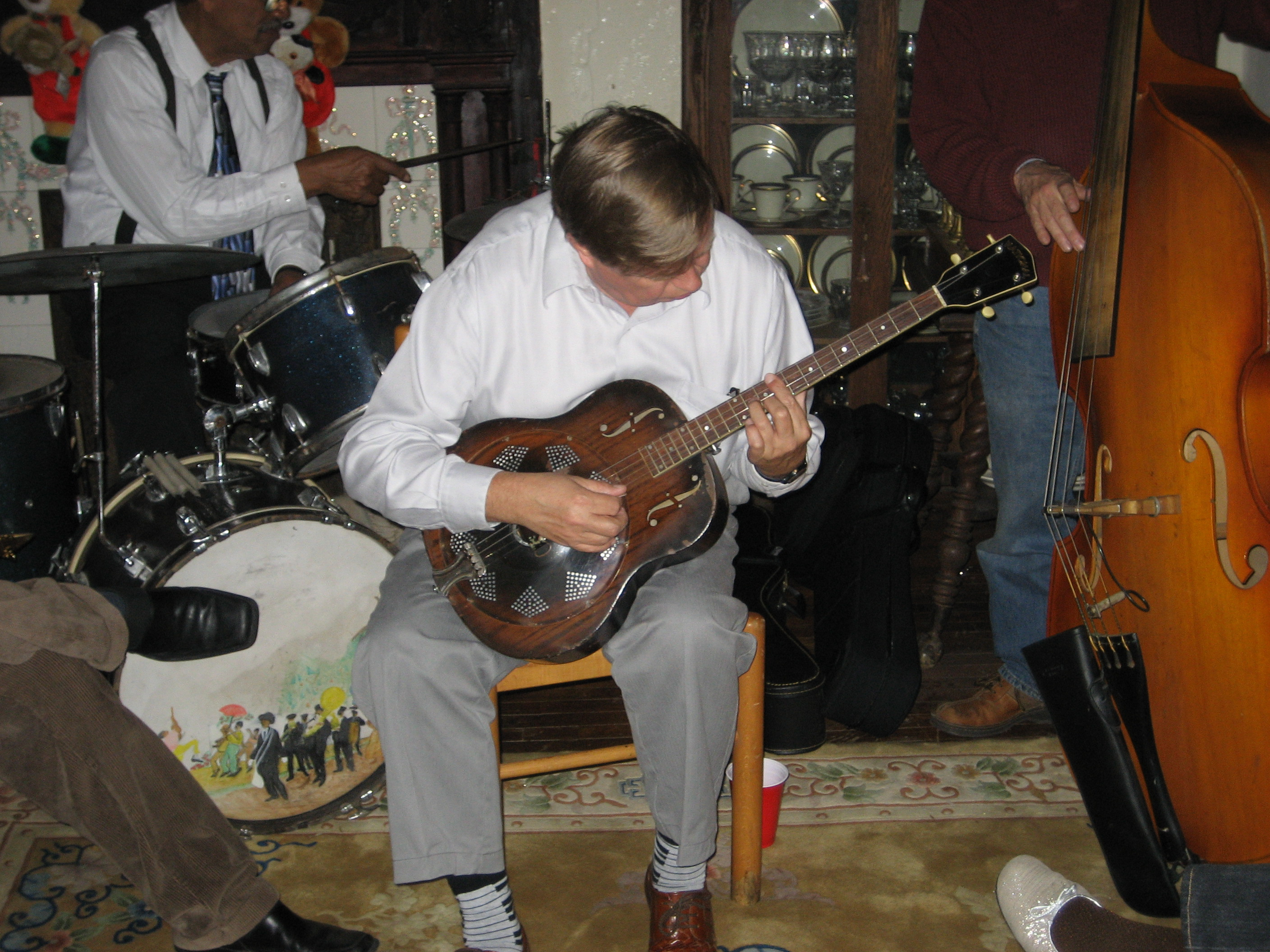 Musican Lars Edegran plays steel tenor guitar at a New Years party in New Orleans.